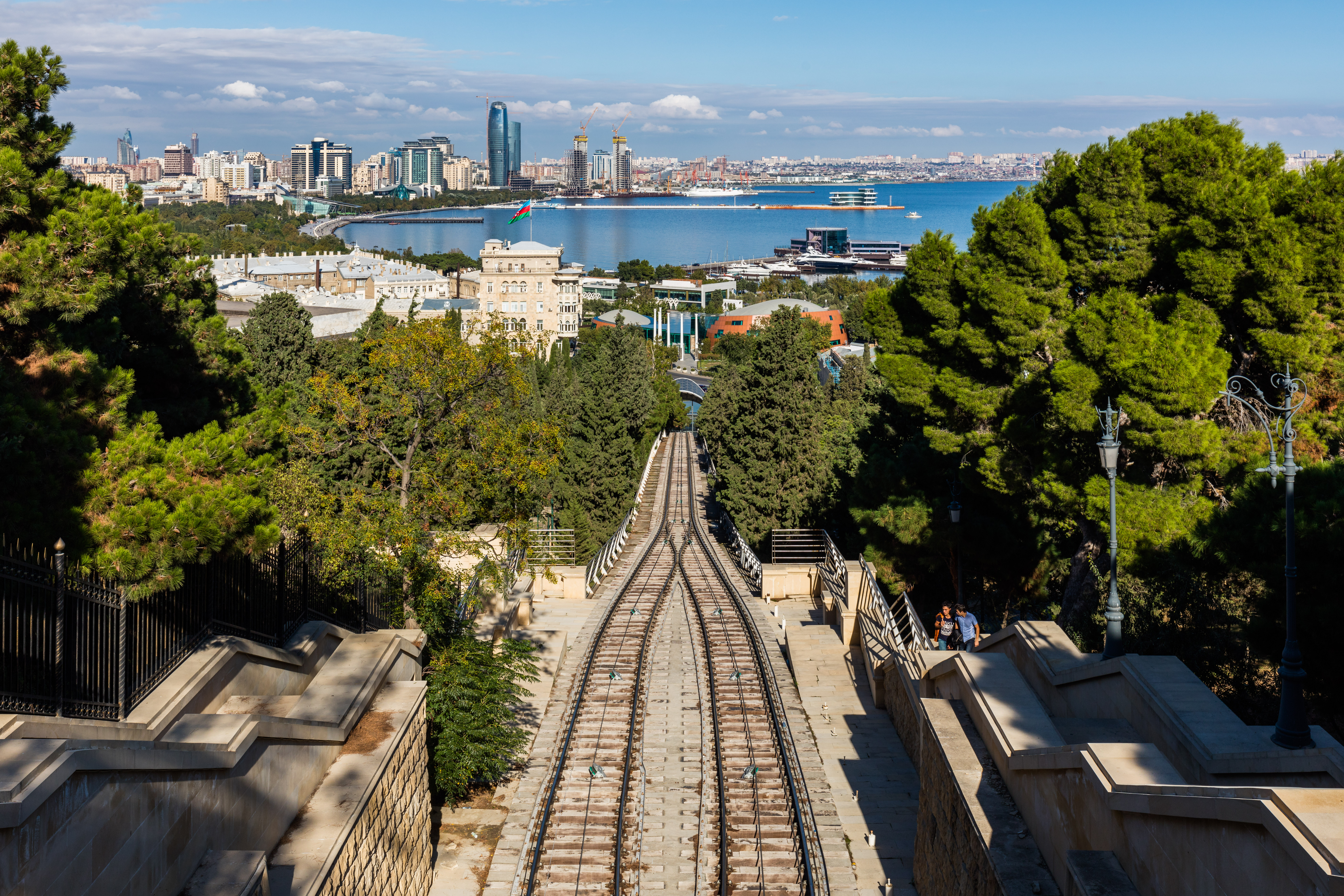 View of Baku, capital of Azerbaijan.